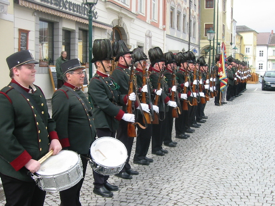 Civil Guards Freistadt